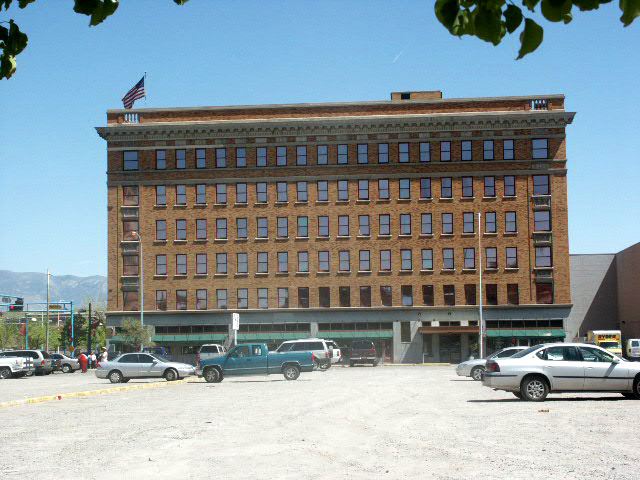 The Sunshine Building — in downtown Albuquerque, New Mexico, USA.